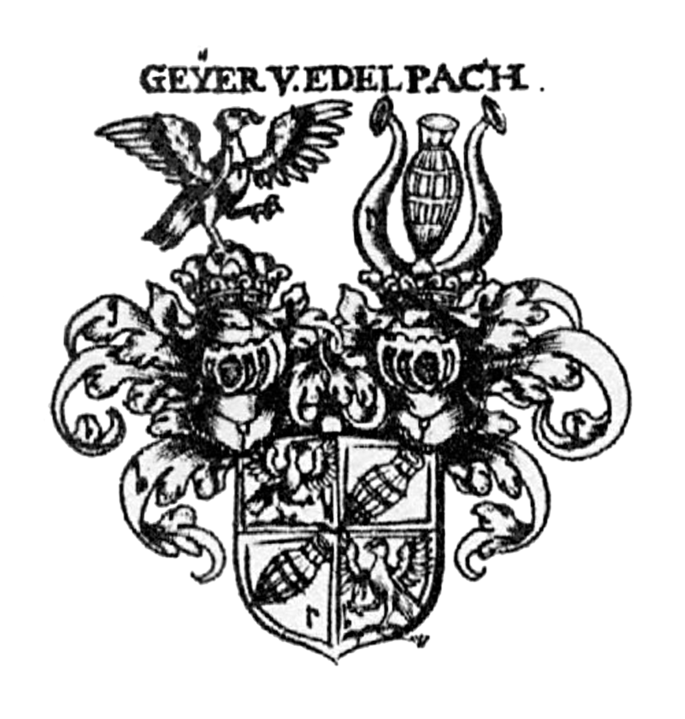 Coat of Arms from Geyer von Edelbach, Austria